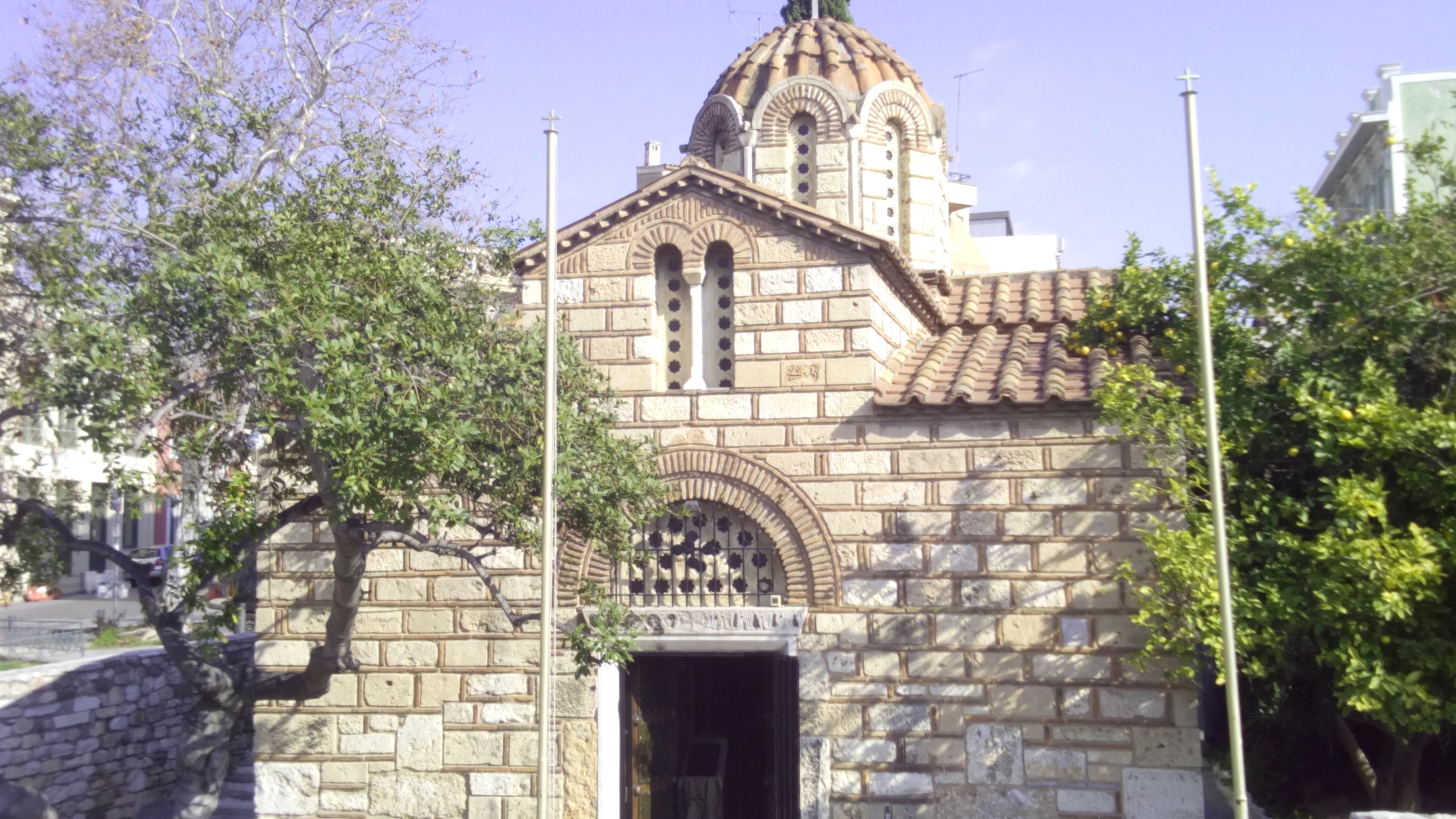 The Holy Church of St. Asomati (Agii Asomati) in Thisseion, (Athens) originally built between the 11th and 12th century. In later centuries, many additions were made, but in 1959, the church was restored to its original form.